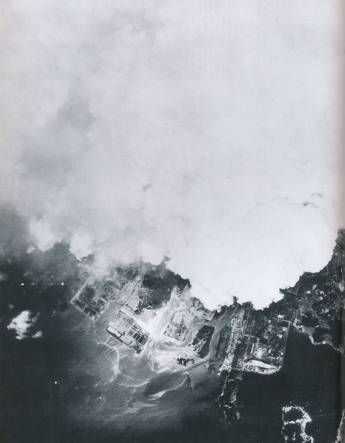 Cloud over Hiroshima, 6 August 1945 (small version)